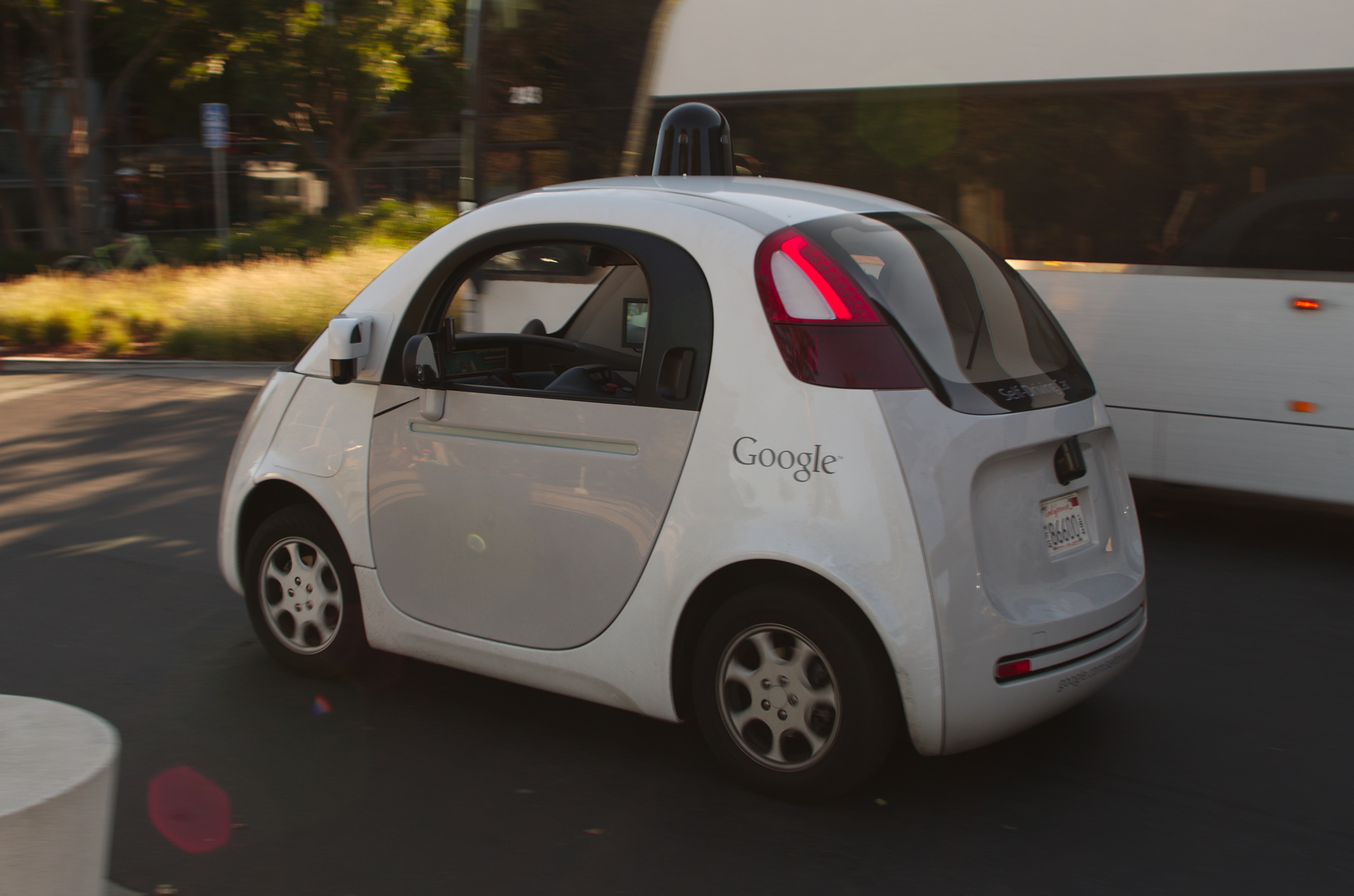 A Google self driving car drives past a double-deck commuter bus at Google's headquarters in Mountain View, CA, USA.